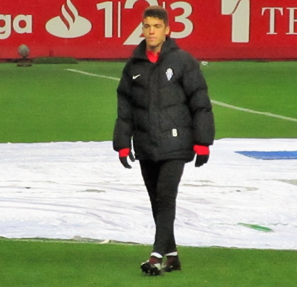 Nacho Méndez, Spanish footballer